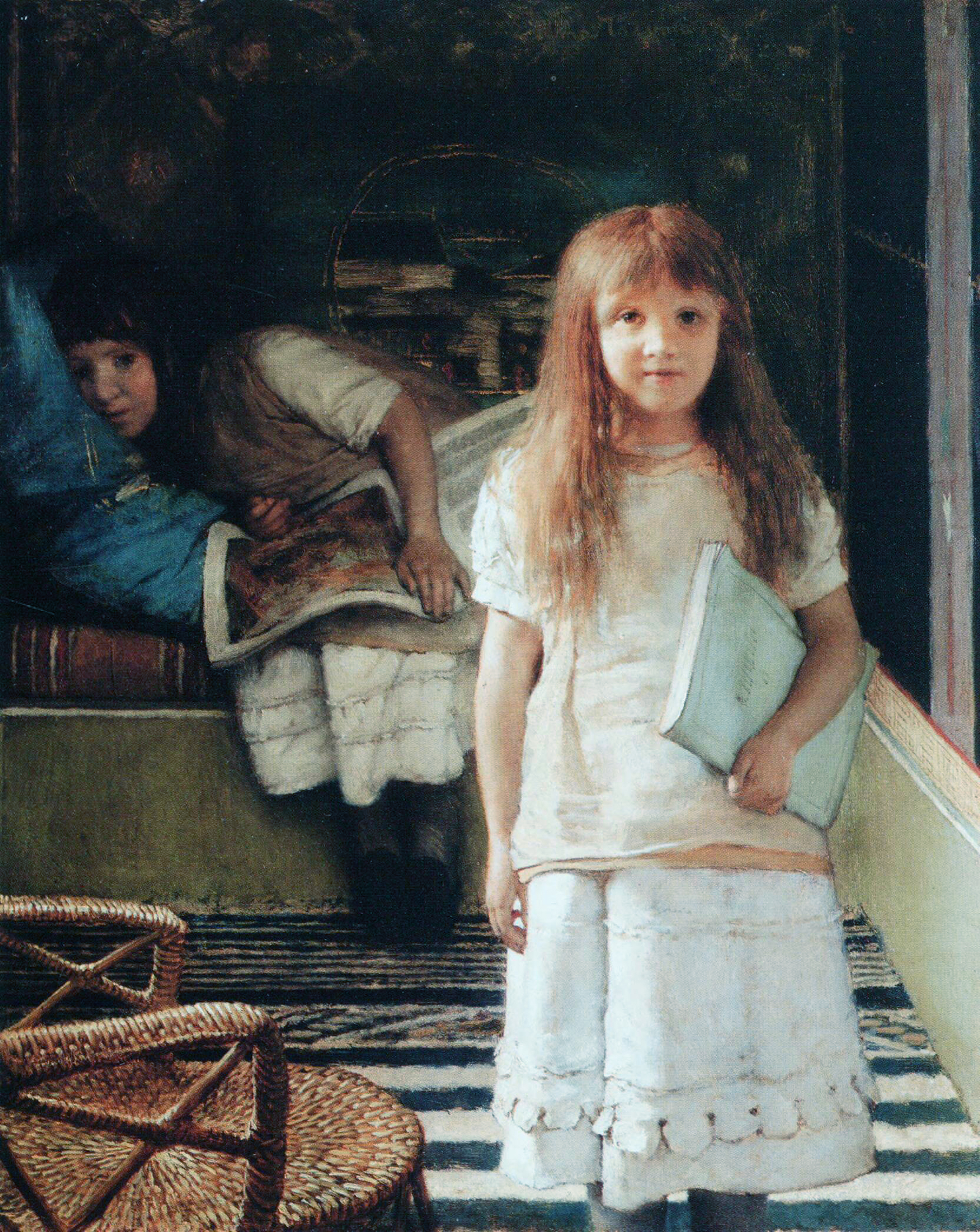 "This Is Our Corner": Portrait of Anna Alma Tadema (1864-1940) and Laurense Alma Tadema (1865-1940) OPUS NR.CXVI 1873